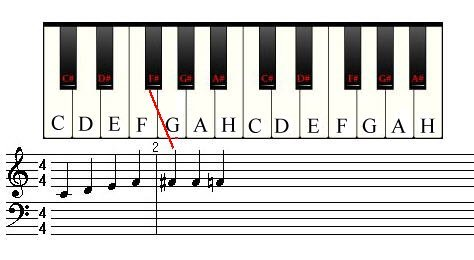 Seeltersk: Notes with sharps - My own work